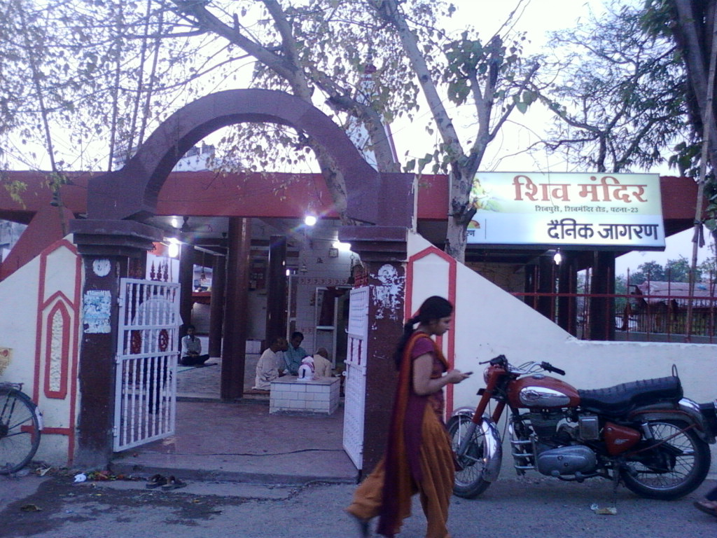 Shiv mandir at Shivpuri, Patna-23